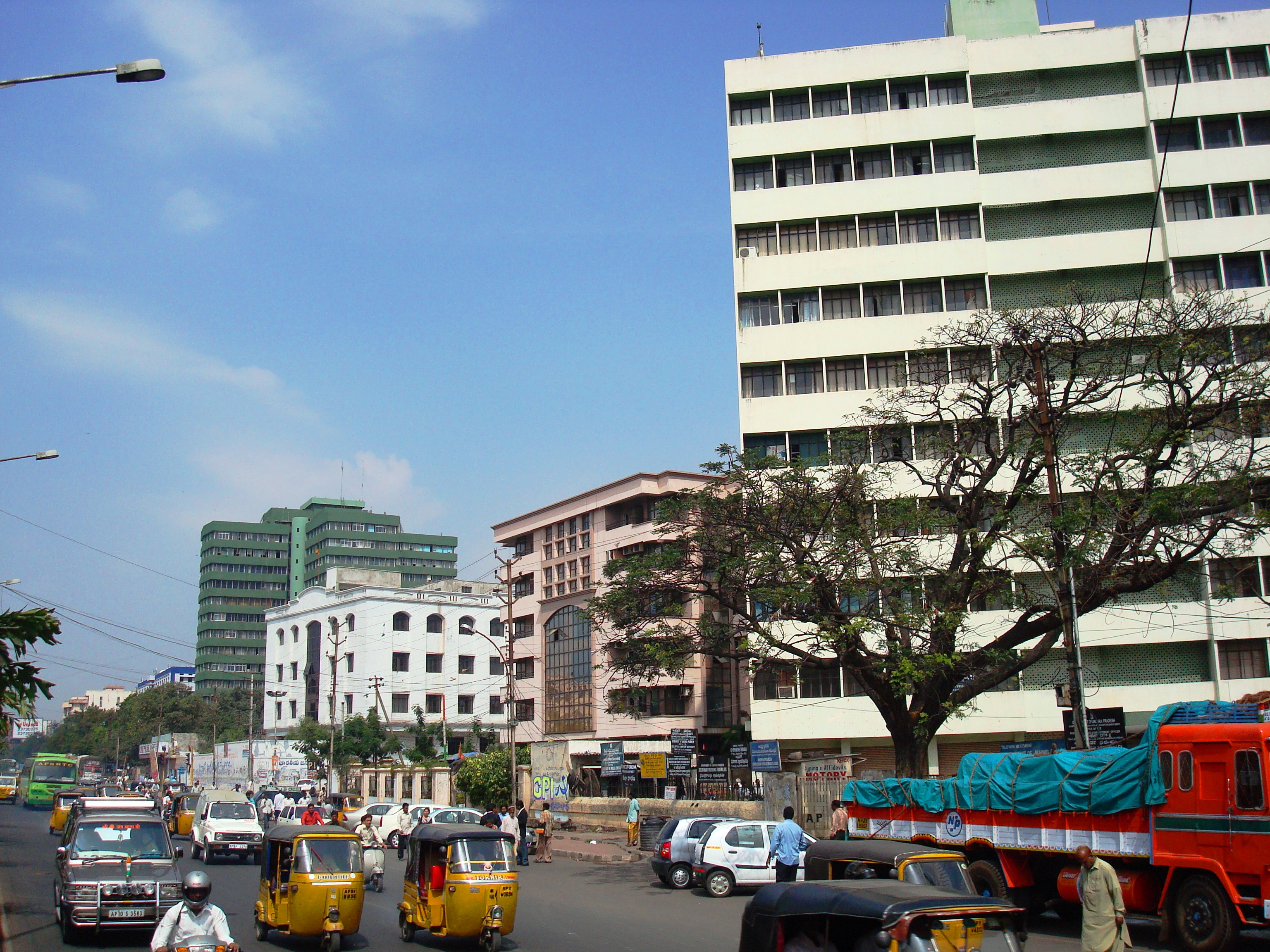 Nampally main road.